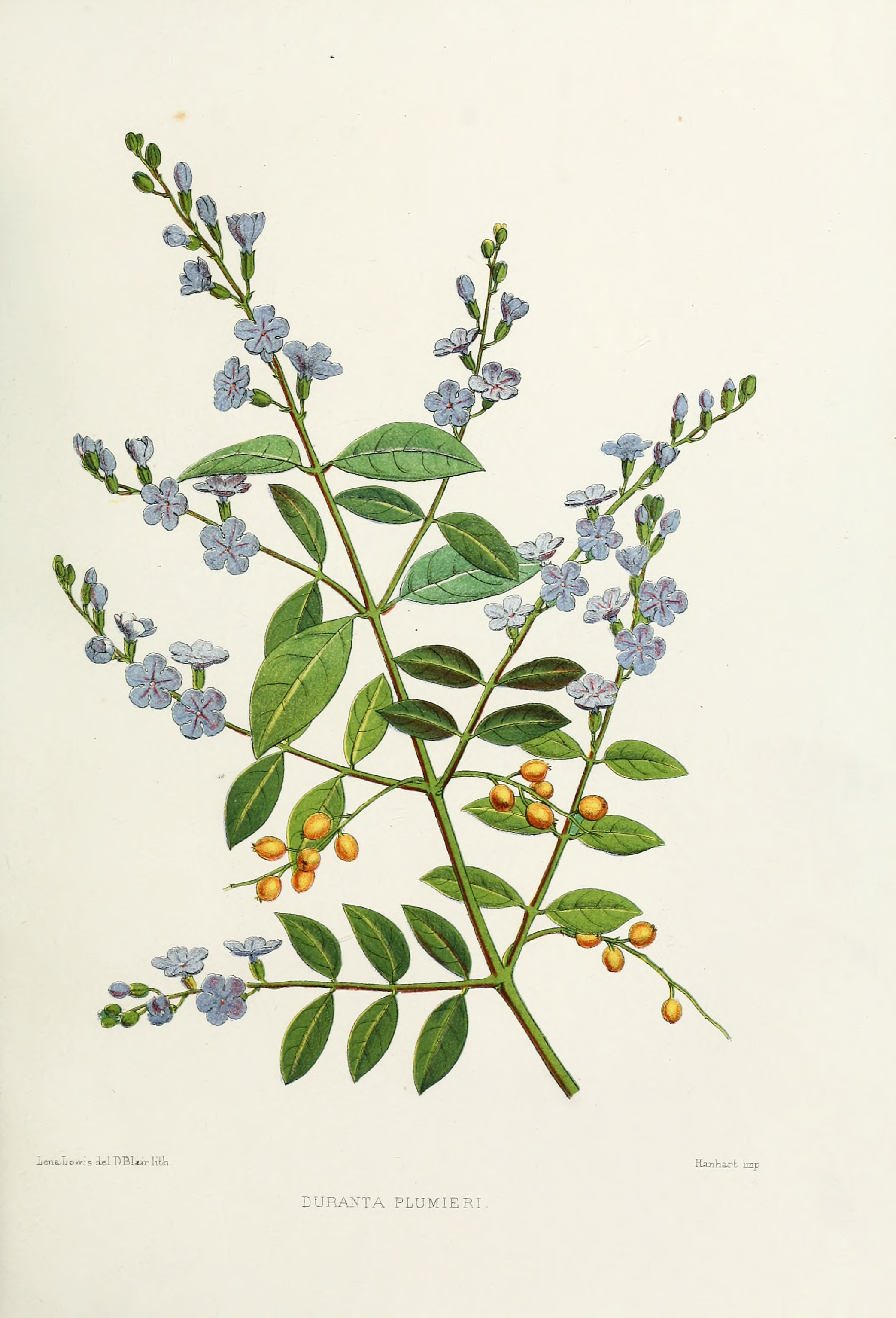 Colour drawing of duranta from Familiar Indian Flowers (1878) by Lena Lowis.